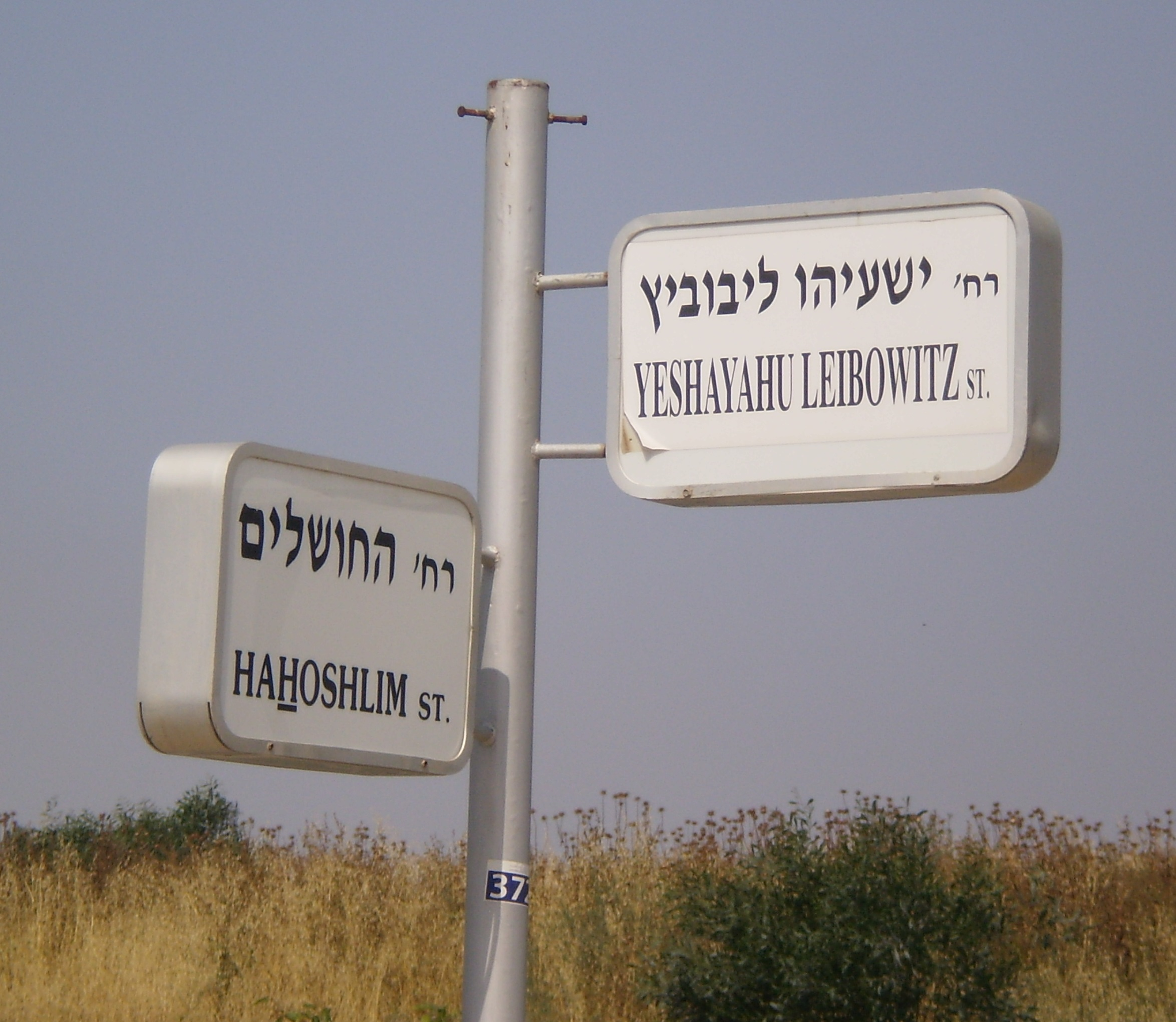 Yeshayahu Leibowitz street, Herzliya